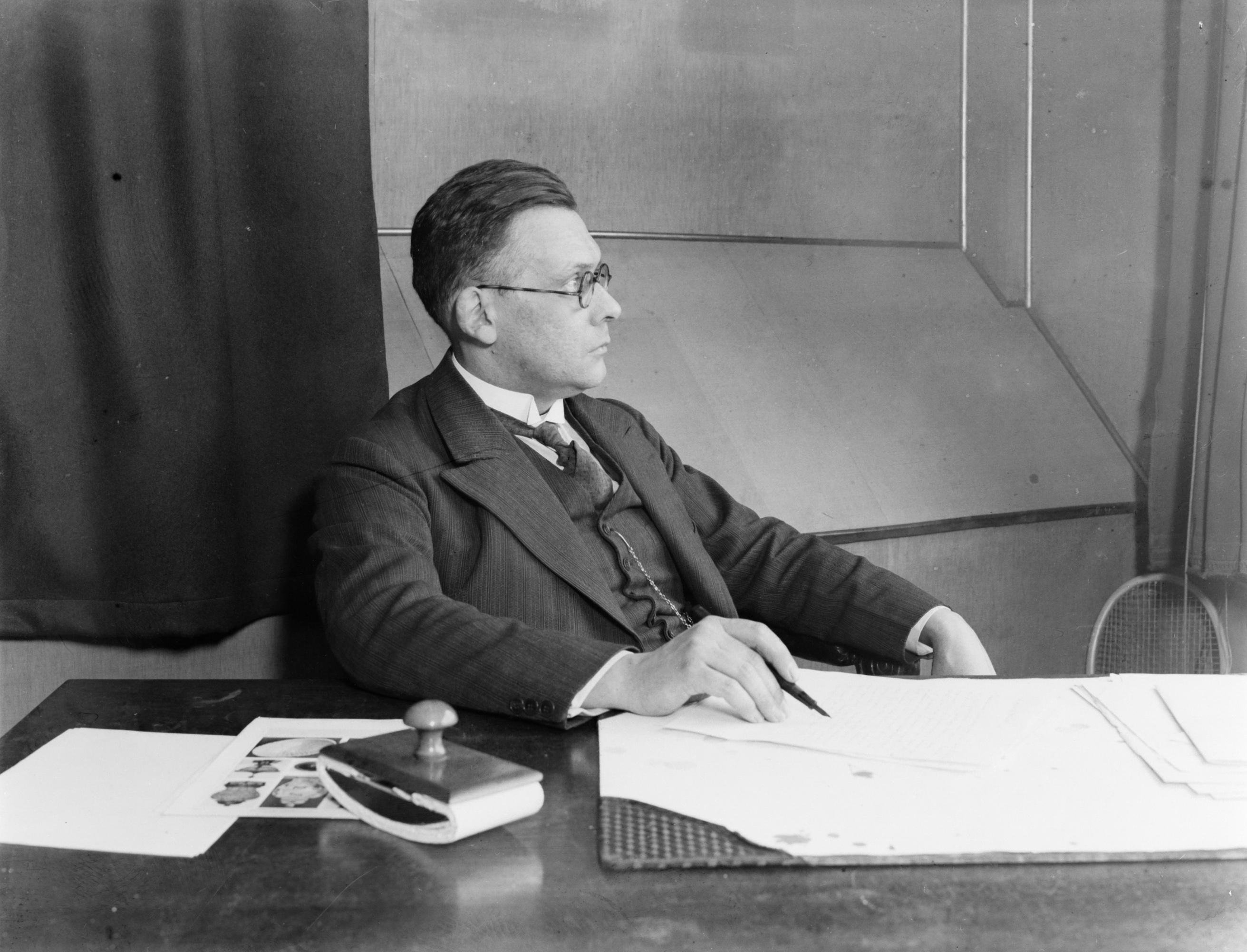 J.P.M.L. (Jan) de Vries (1890-1964). Professor of linguistics at Leiden University (The Netherlands). Photo taken on 1 January (?) 1932